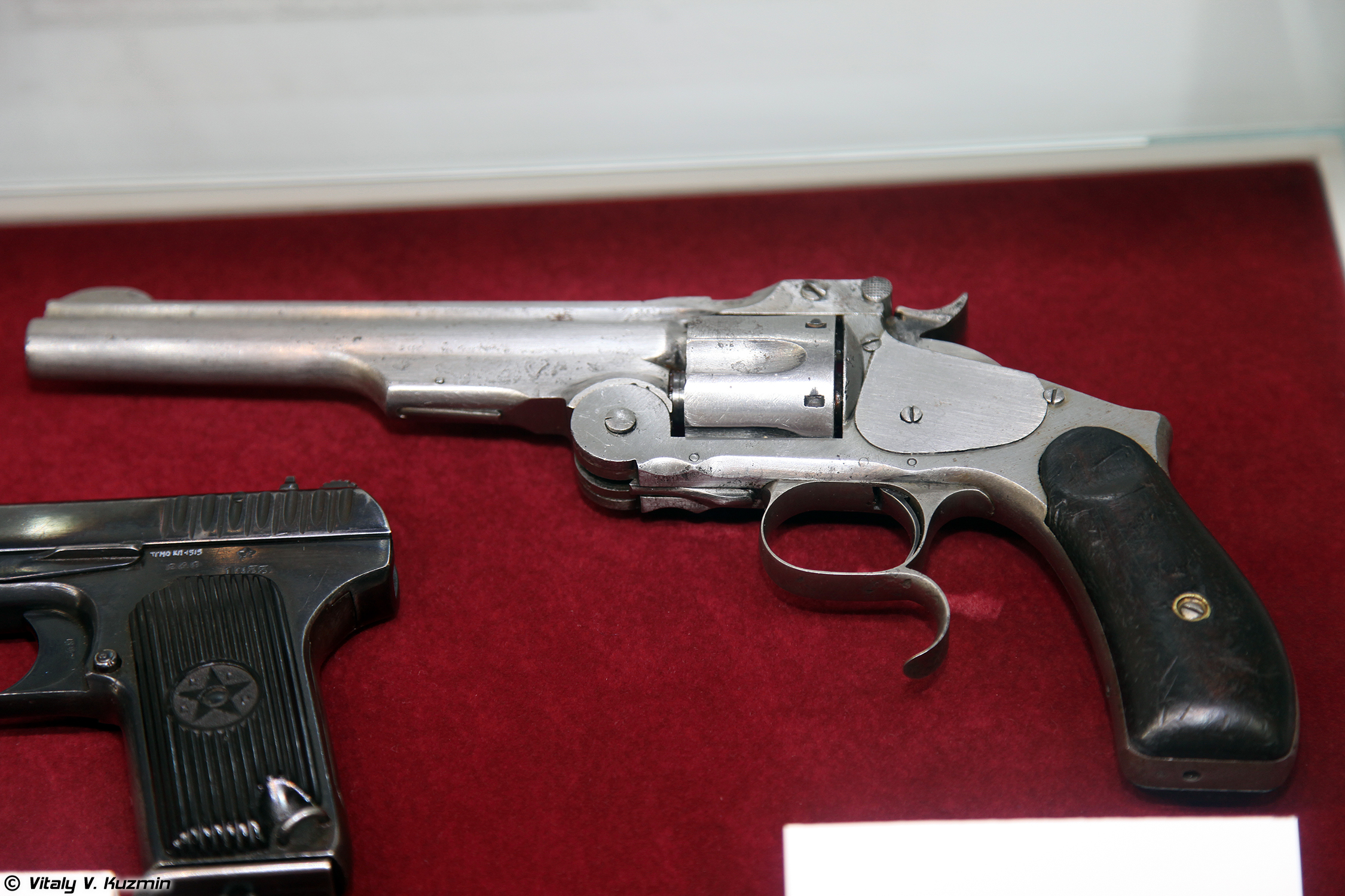 S&W Model 3 revolver 1880